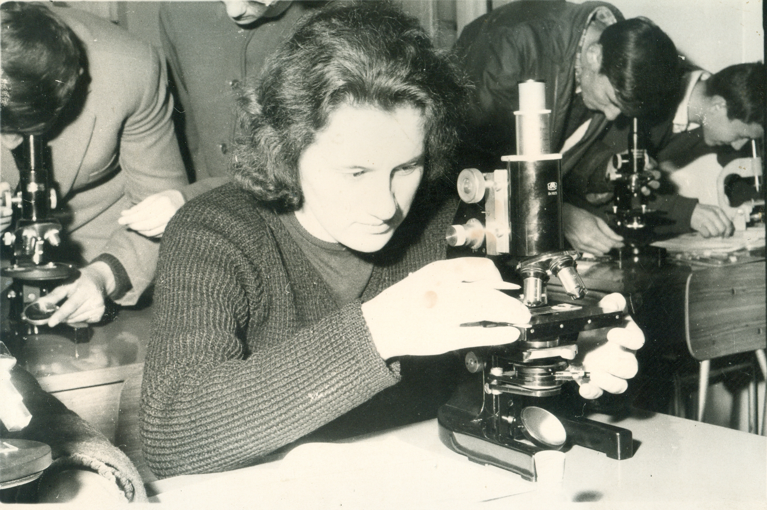 School for teacher in Negotin, Student in a school lab Srpski (latinica): Učiteljska škola u Negotinu, Studentkinja u laboratoriji